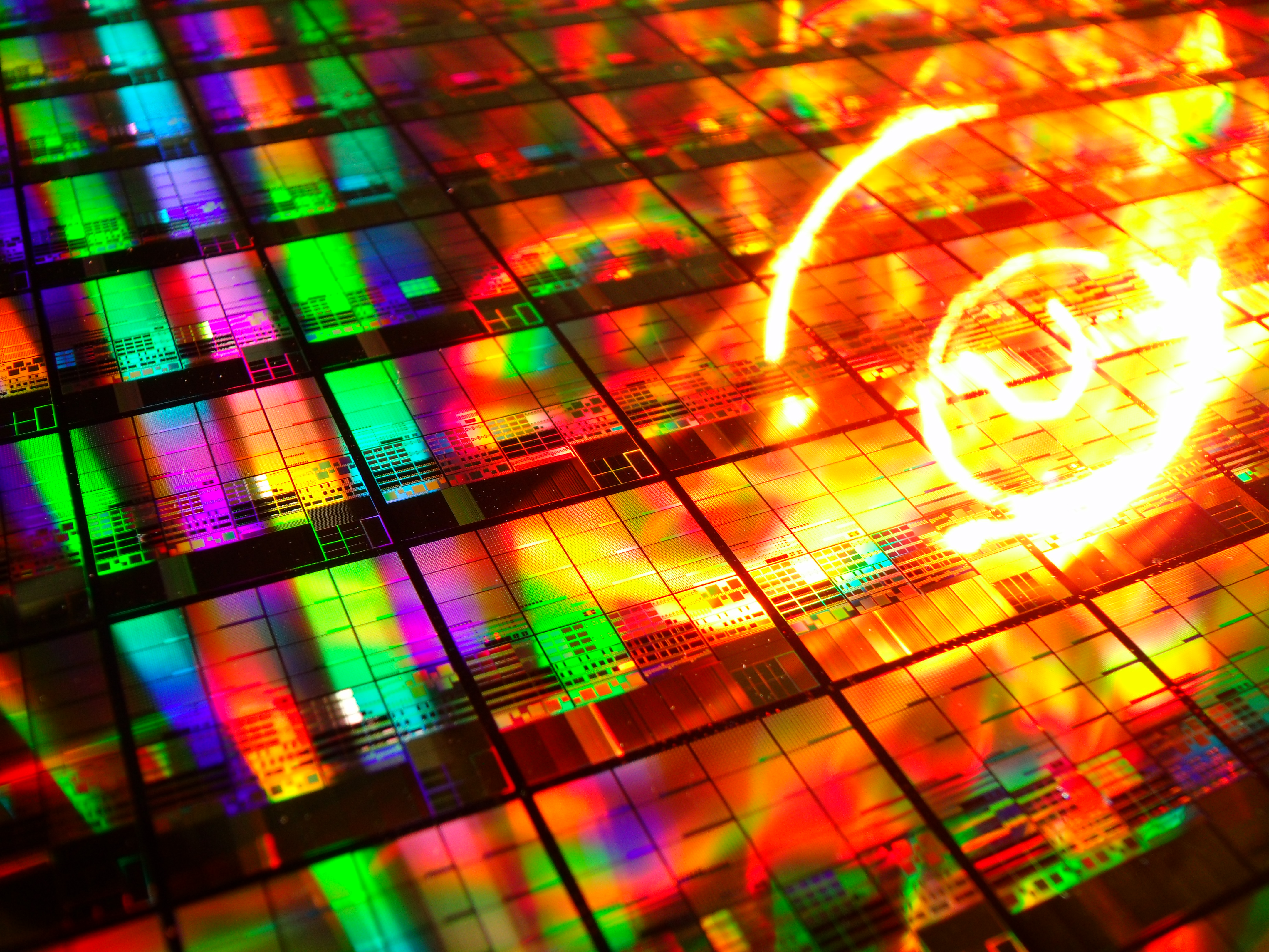 300 mm test wafer under magnification (2.5 mm side size of the chip) lightened with visible light. Lightning formula: compact luminiscent mercury lamp 25W + halogen visible&infrared 300W heating lamp